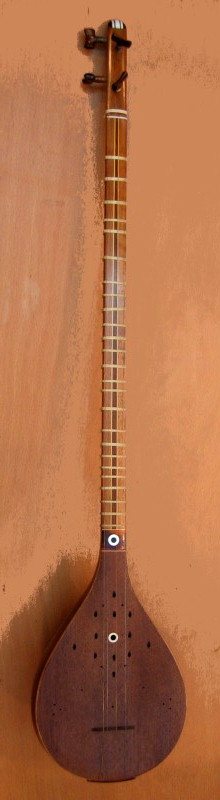 Setar Lute.